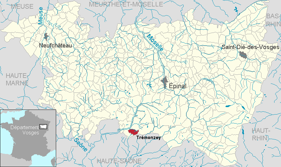 Trémonzey in the department of Vosges, Lorraine, France